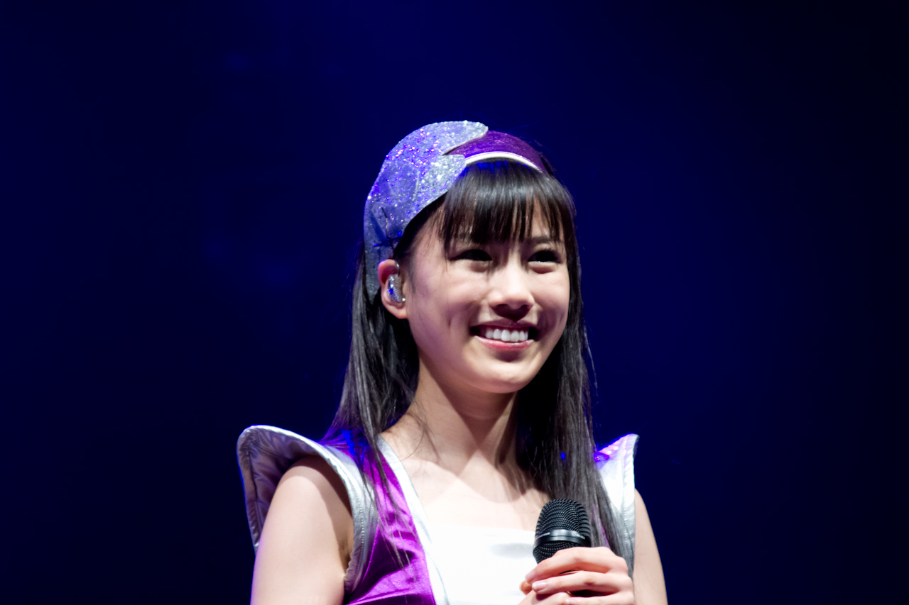 Japan Expo 13 - 2012 Cover pics by Dj ph All sets here : bit.ly/LHdWLq